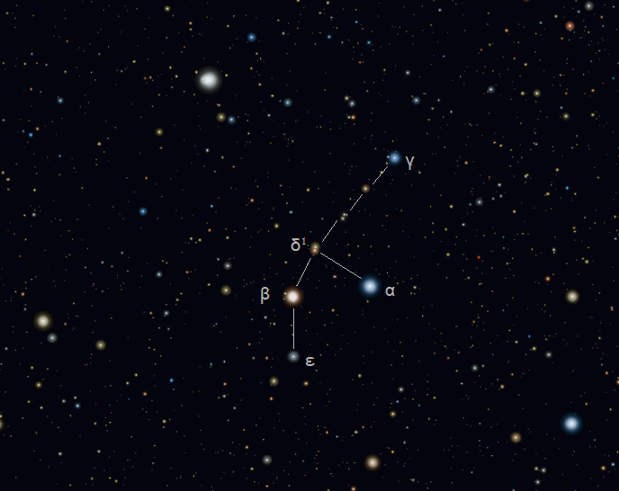 Image of Grus